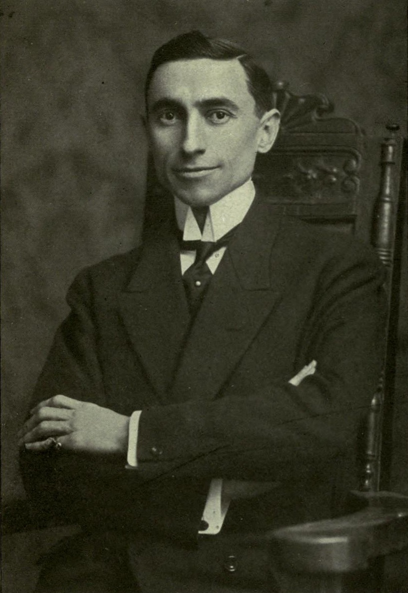 Picture of Hugh S. Gibson